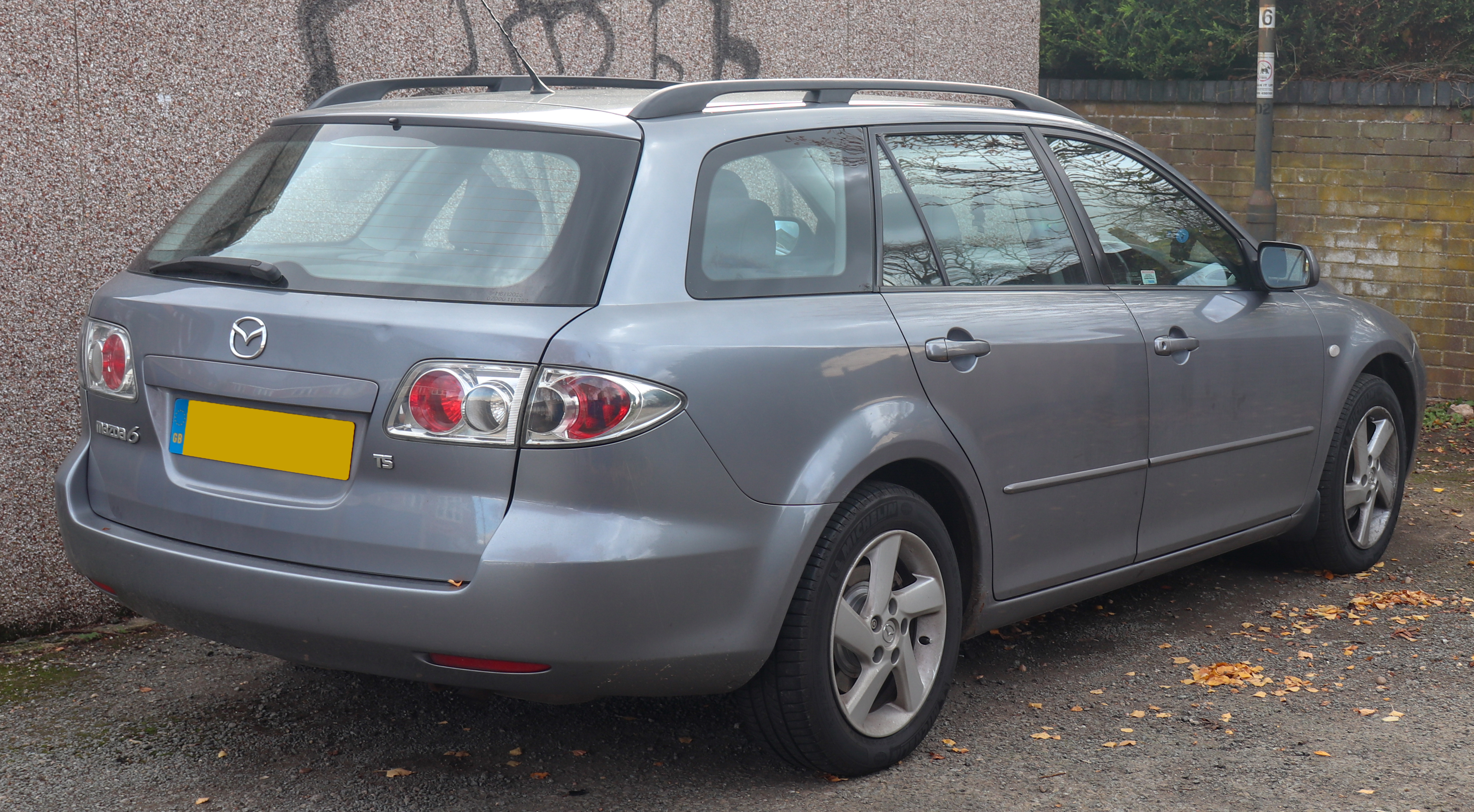 2004 Mazda6 TS Estate 2.0 Rear Taken in Warwick